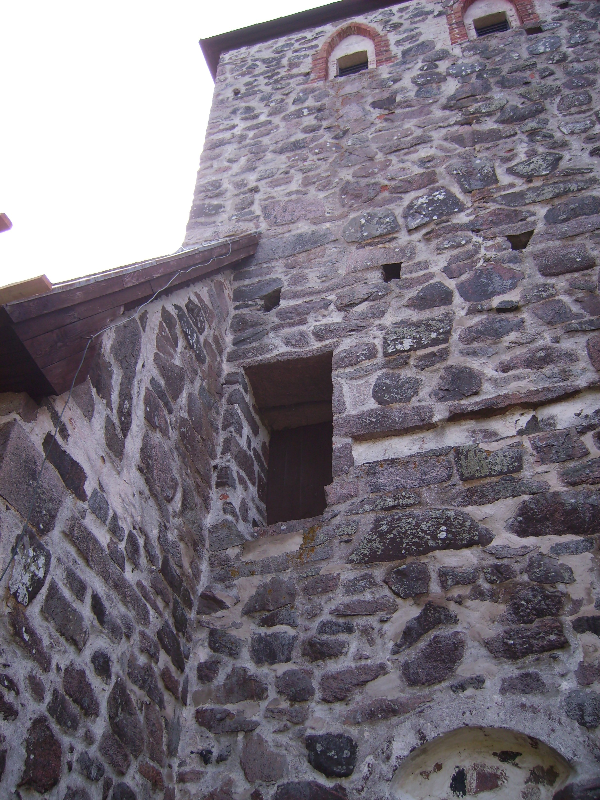 The medieval church in Korpo, Finland